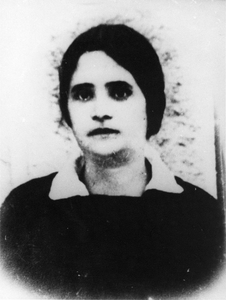 Kalliopi_Dimitriadou